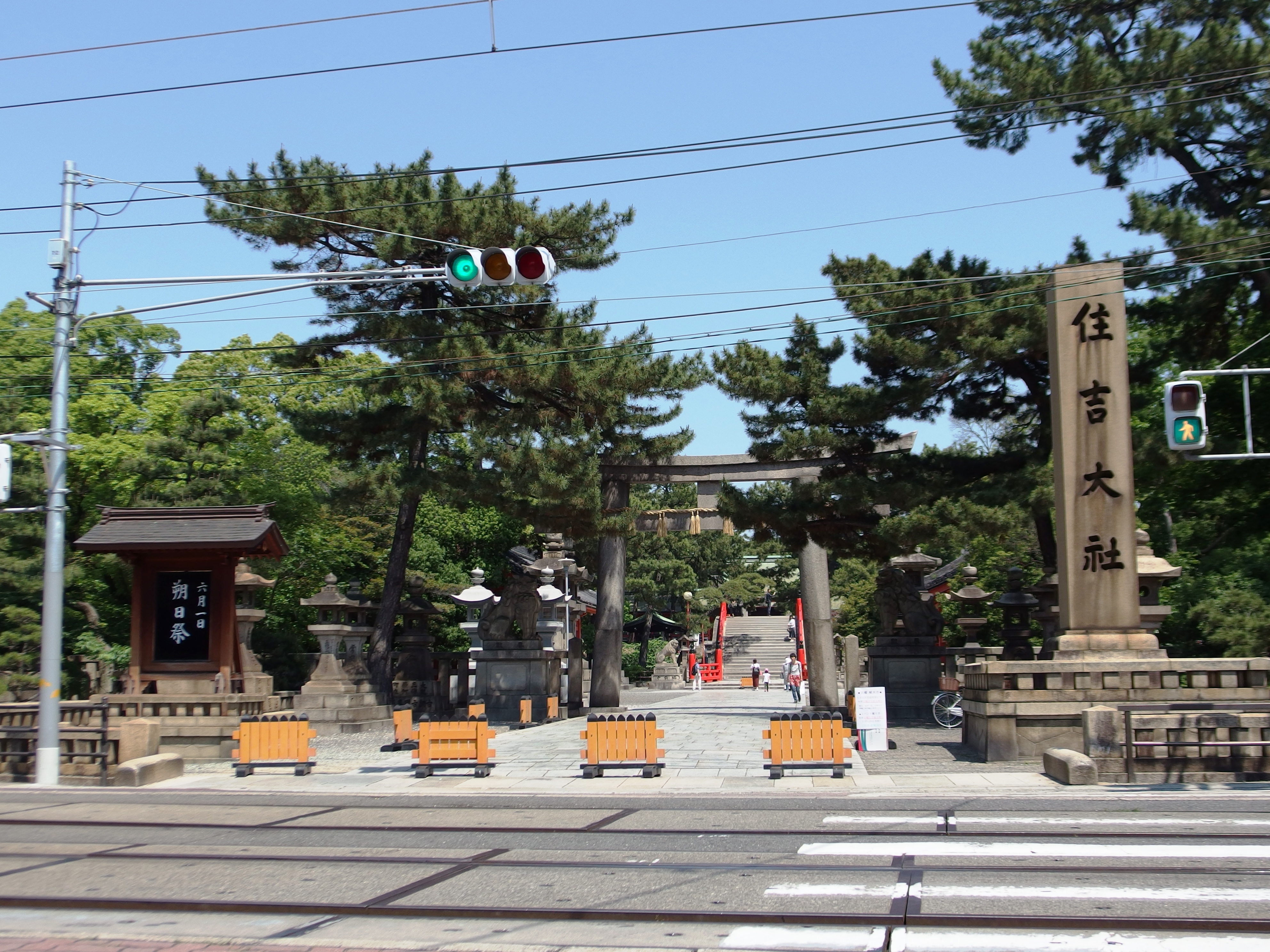 Sumiyoshi Grand Shrine in Osaka, Osaka Prefecture, Japan